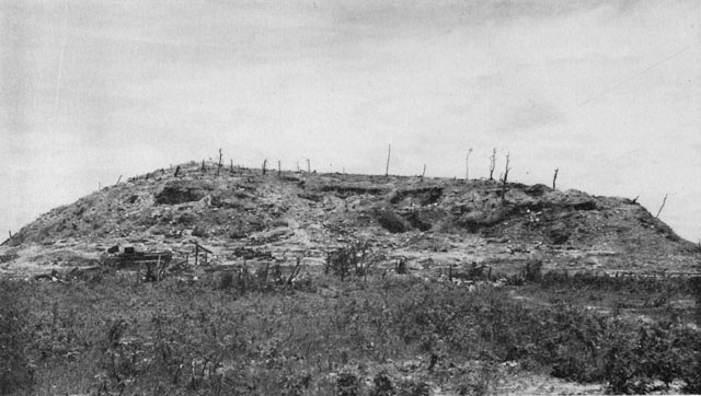 SUGAR LOAF HILL, western anchor of the Shuri defenses in Okinawa 1945, seen from a point directly north.